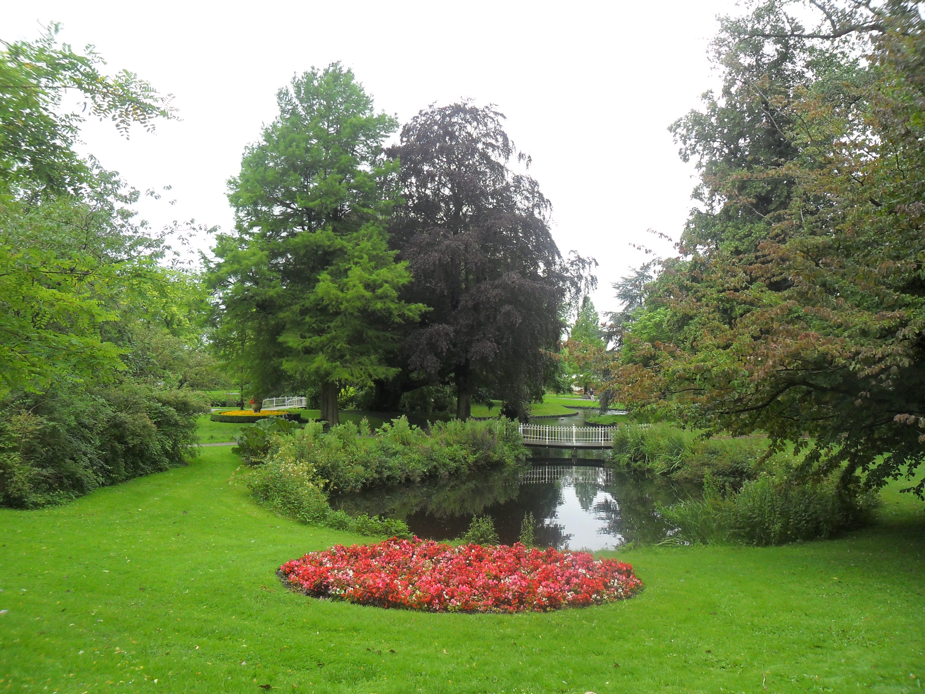 View inside Wilhelminapark, Sneek.